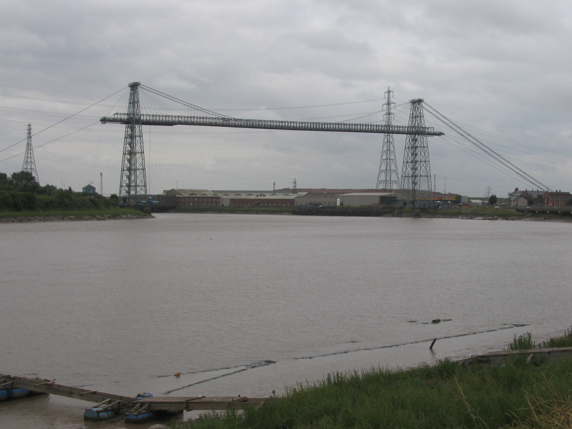 Newport Transporter Bridge.